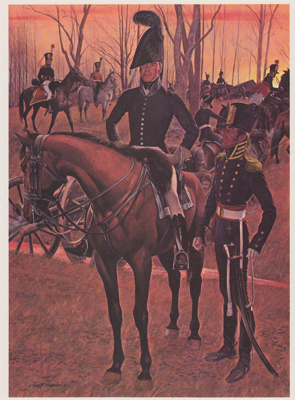 The figure on foot in the right foreground shows a sergeant of light artillery in the all blue uniform trimmed with yellow prescribed in January 1812, when the light artillery became the first corps of the Army to do away with colored facings. The rank is recognizable by the two yellow silk epaulettes and red sash. The sergeaht wears a yeoman crowned shako a shako wider at the top than at the bottom -- with yellow cords, a yellow plate, and a red and white plume peculiar to the light artillery at this time. The horseman in the foreground is an infantry surgeon in the uniform adopted in January 1812. He is recognizable by the silver embroidered collar on his plain blue coat, the lack of epaulettes, and the black ostrich feather in his black bordered hat. Behind the infantry surgeon and partially obscured by him is a gun with its mounted crew preceded by a caisson. To the left in the background is a captain of light artillery in a blue coat with white breeches, with one gold epaulette on his right shoulder and three bars in the corner of his red, gold-laced, saddle cloth. To his left is a trumpeter of light artillery in a coat of red, the reversed color of the regimental uniform.